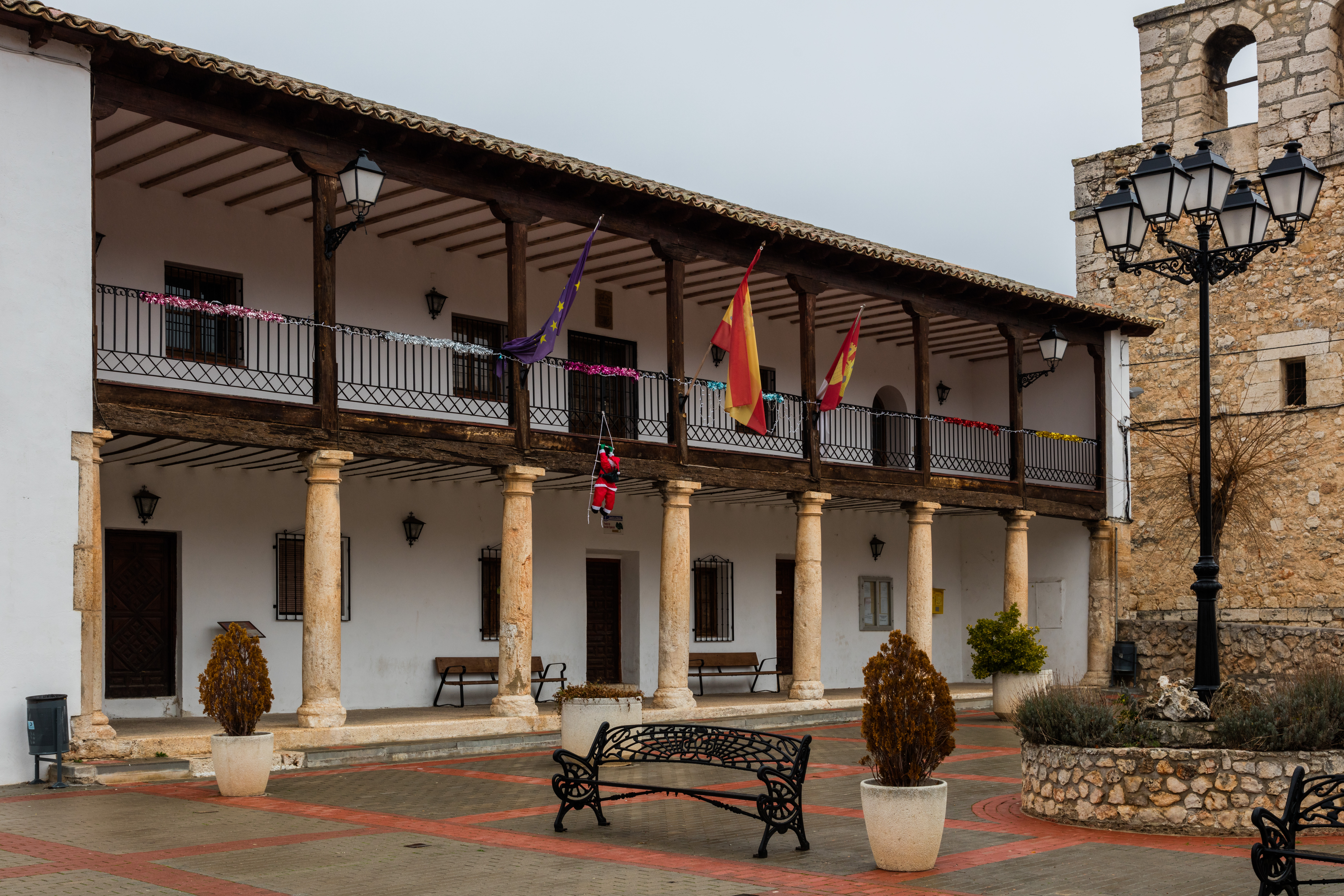 Ayuntamiento, Renera, Guadalajara, Spain